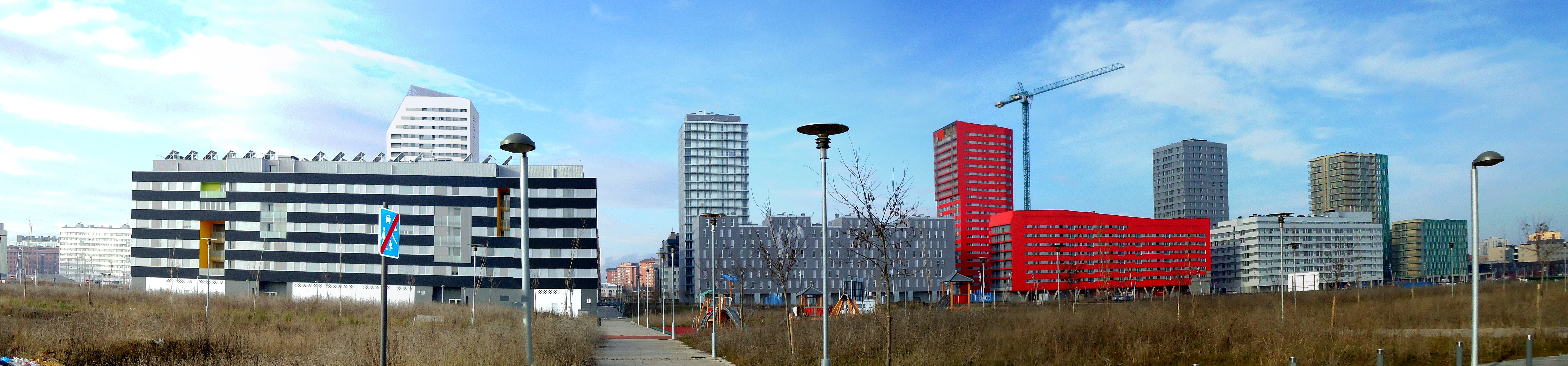 Ibaialde neighbourhood (Vitoria-Gasteiz, Araba, Basque Country, Spain)